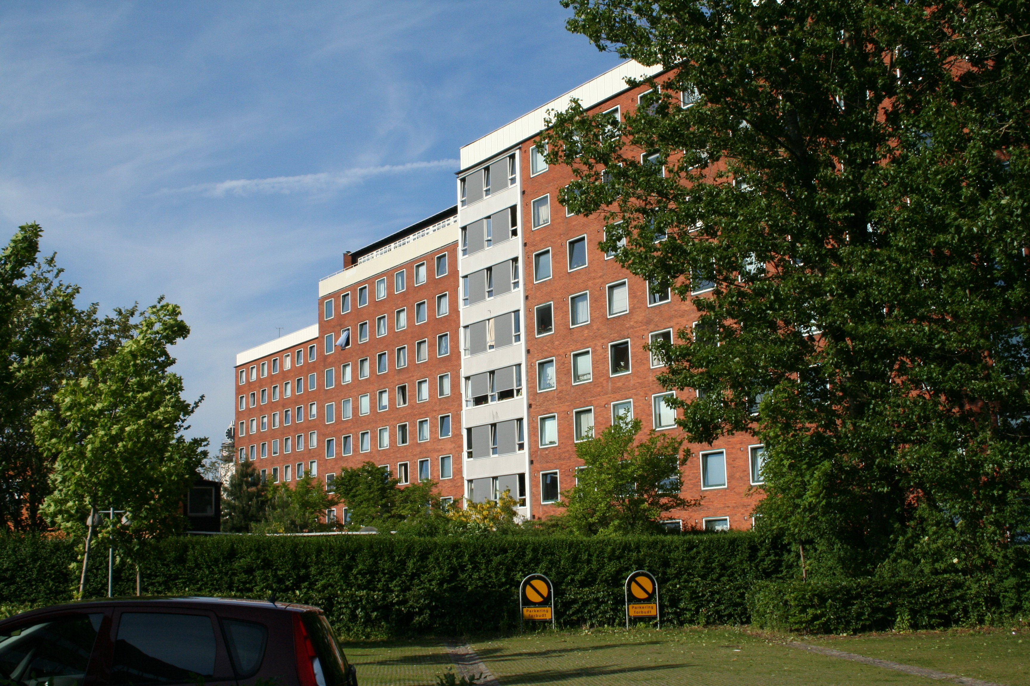 Egmont H. Petersens Kollegium